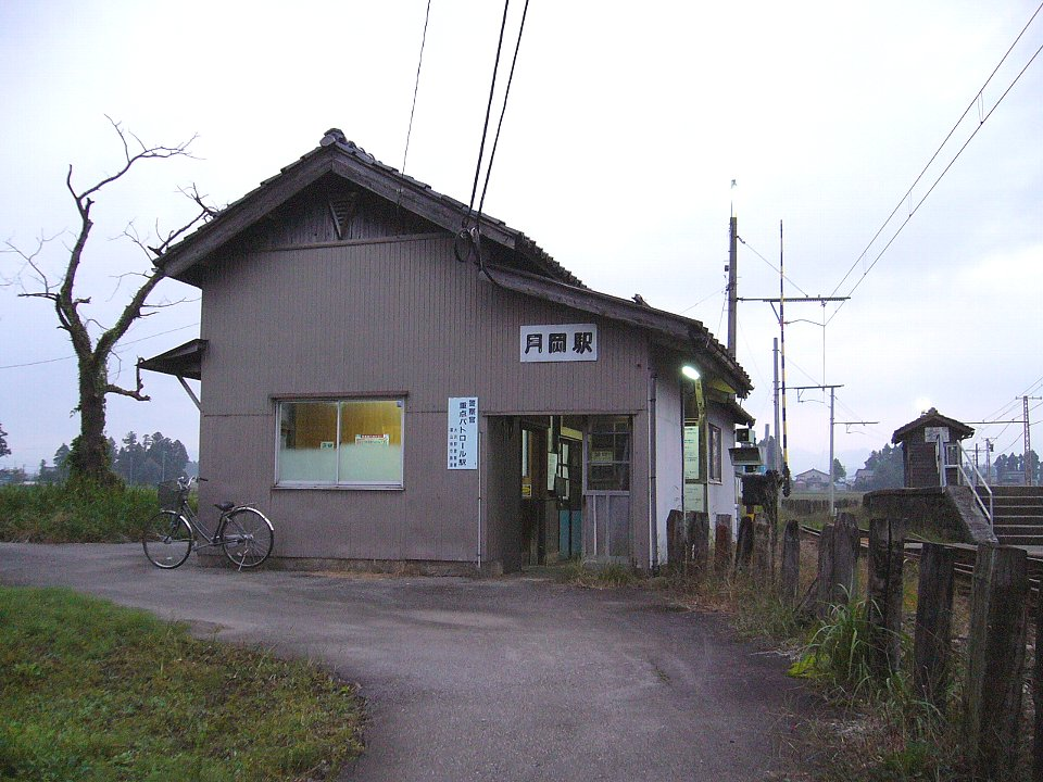 Tsukioka Station on the Toyama Chiho Railway Kamidaki Line in the city of Toyama, Toyama Prefecture, Japan